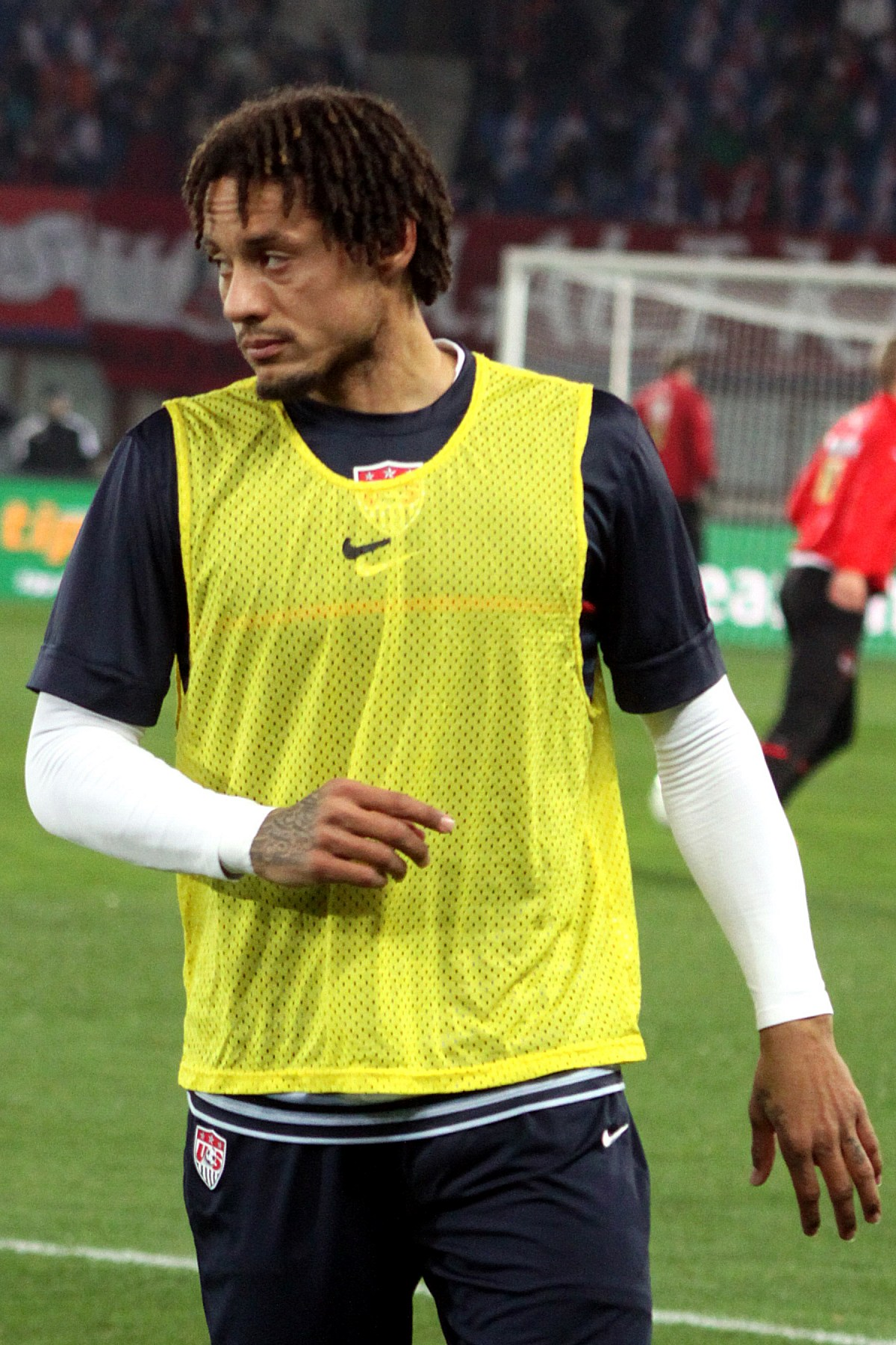 Friendly-match Austria vs. USA (1:0) in the Ernst-Happel-Stadion in Vienna at 2013-03-22. – The photo shows Jermaine Jones (USA).